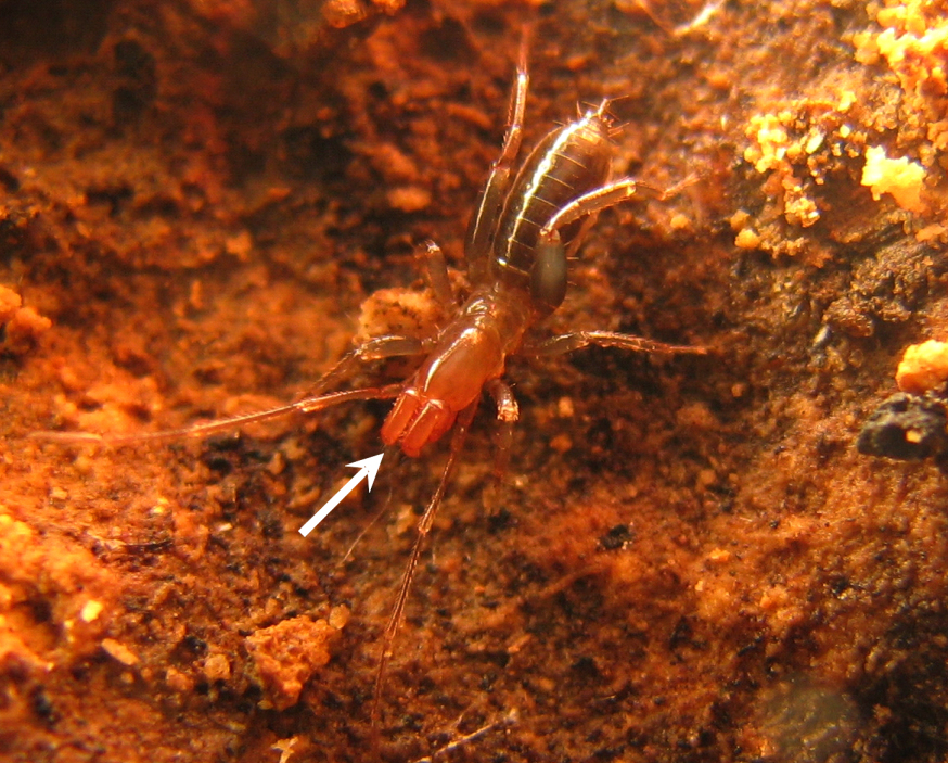 Rowlandius potiguar, female from Felipe Guerra, Rio Grande do Norte, Brazil (arrow indicates the pedipalp).